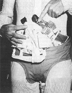 Urine collection and transfer assembly worn over the liquid cooling garment.